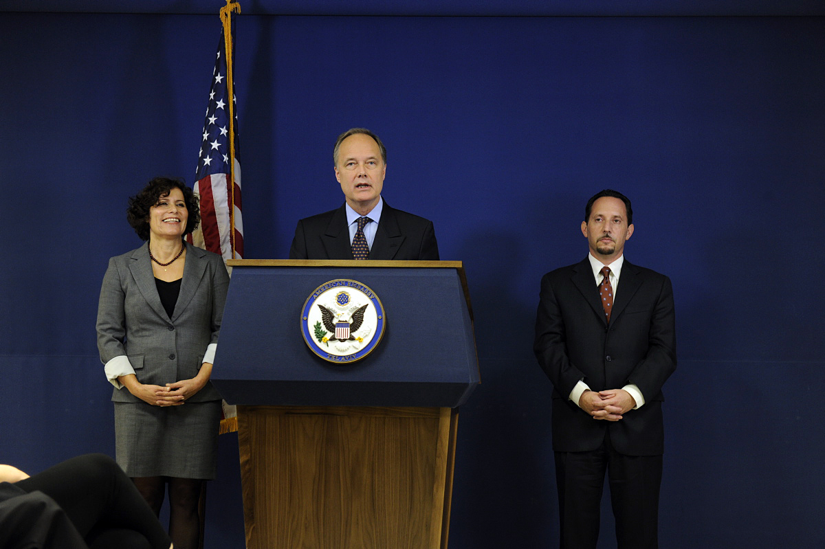 U.S. Ambassador James B. Cunningham (center) and U.S. Consul General Daniel Rubinstein (right) with Cisco Senior Manager Zika Abzuk in the U.S. Consulate General, Jerusalem.